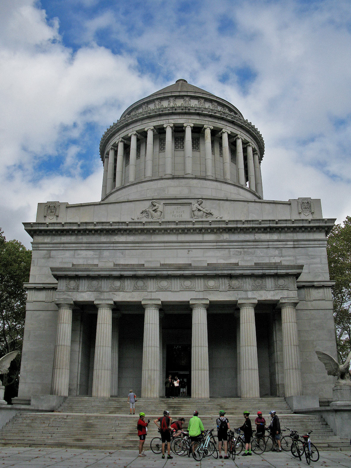 General Grant National Memorial Site: General Grant National Memorial